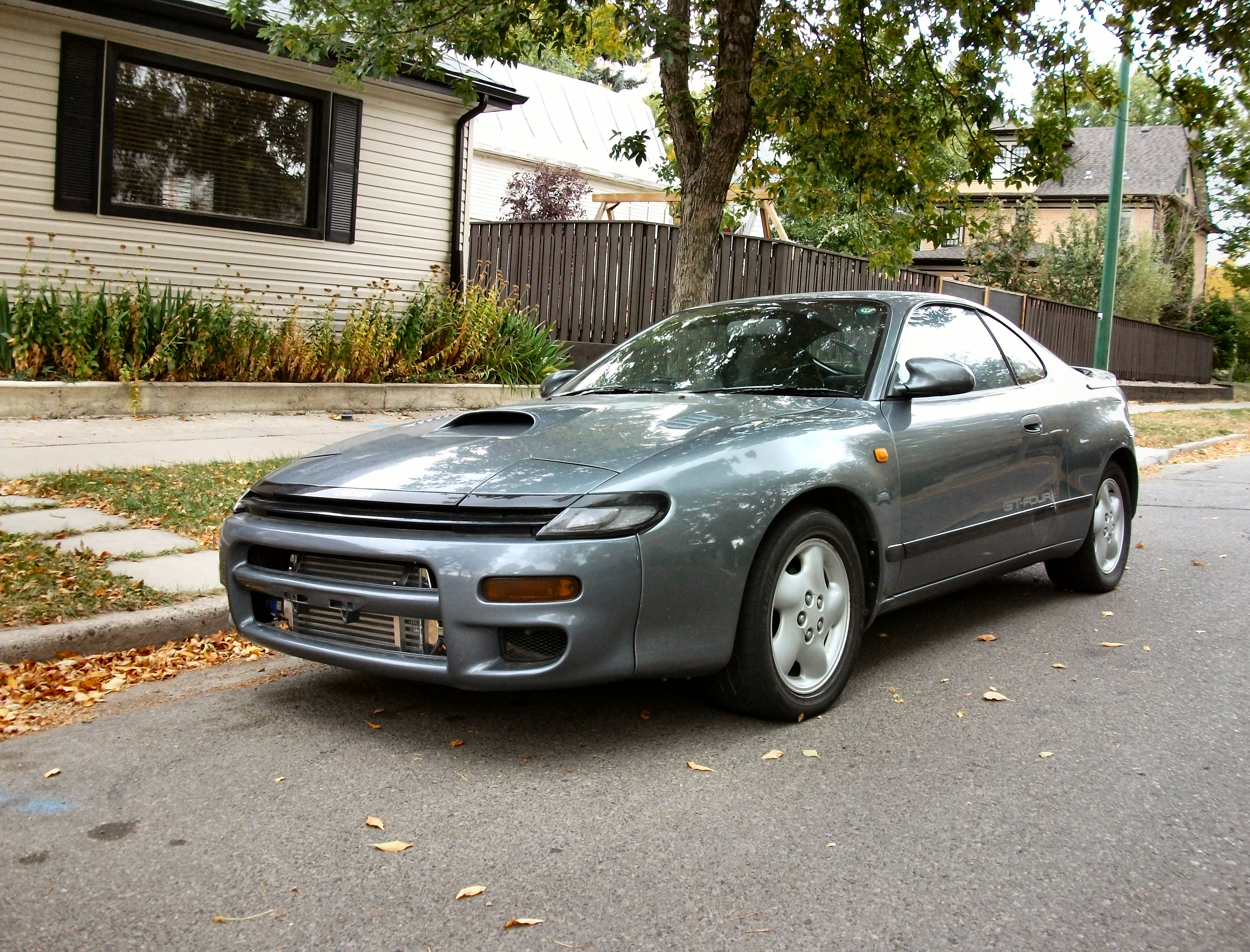 Toyota Celica GT-Four (ST185) - imported from Japan this would be the same as what was called the All-Trac Turbo in the USA, or Turbo 4WD in Canada.